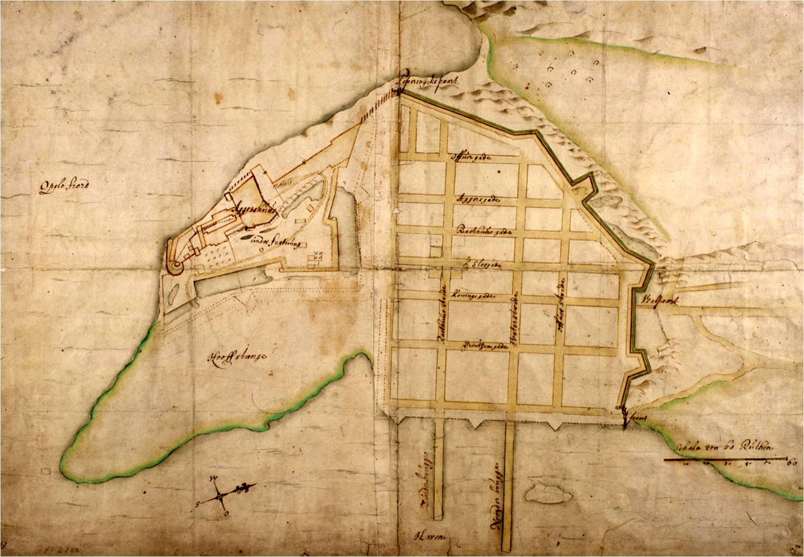 Map of Christiania (Oslo) 1648 by Isaac van Geelkerck